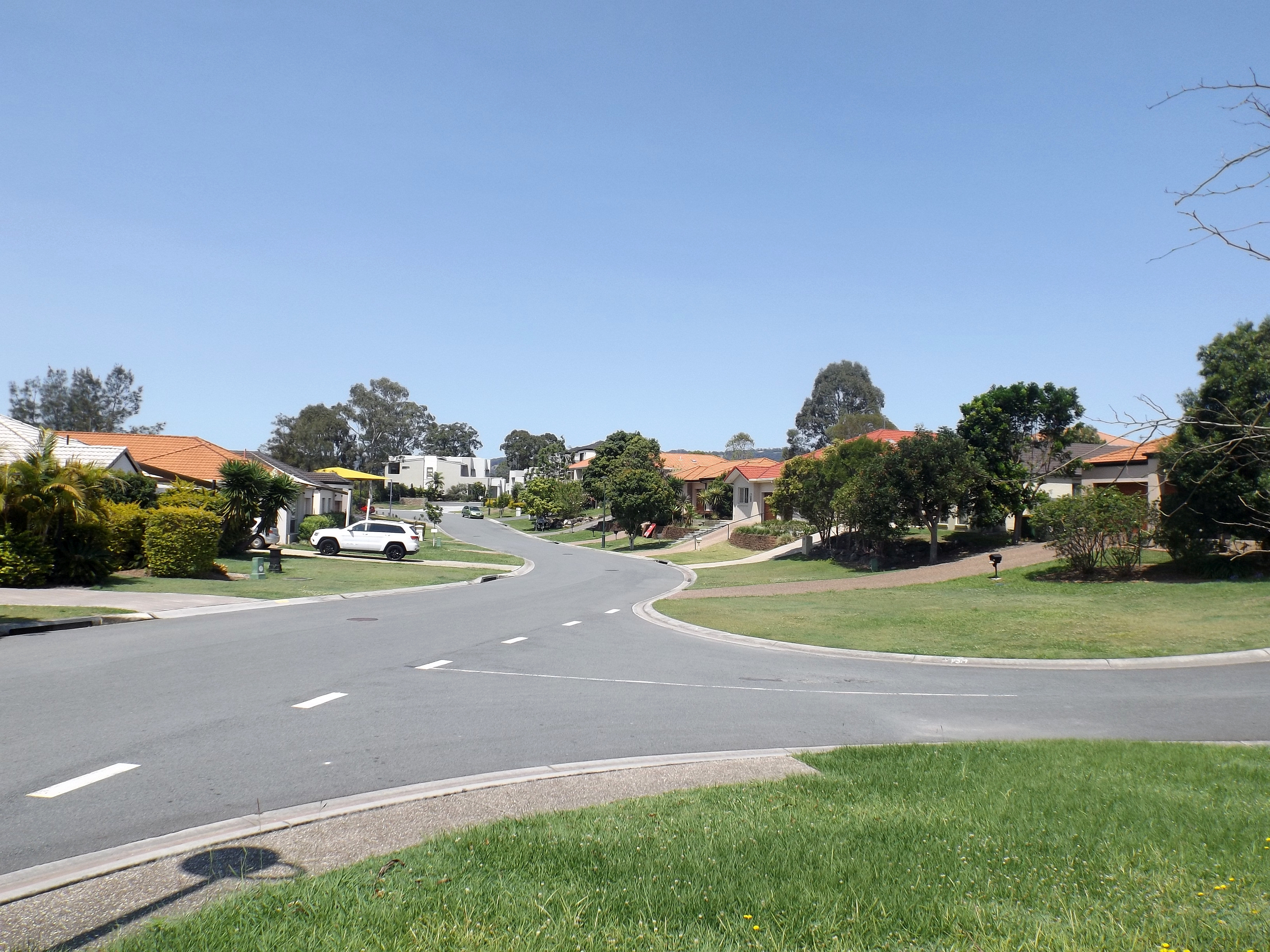 Photo of Entry Drive at Merrimac, Gold Coast City, Queensland, Australia.